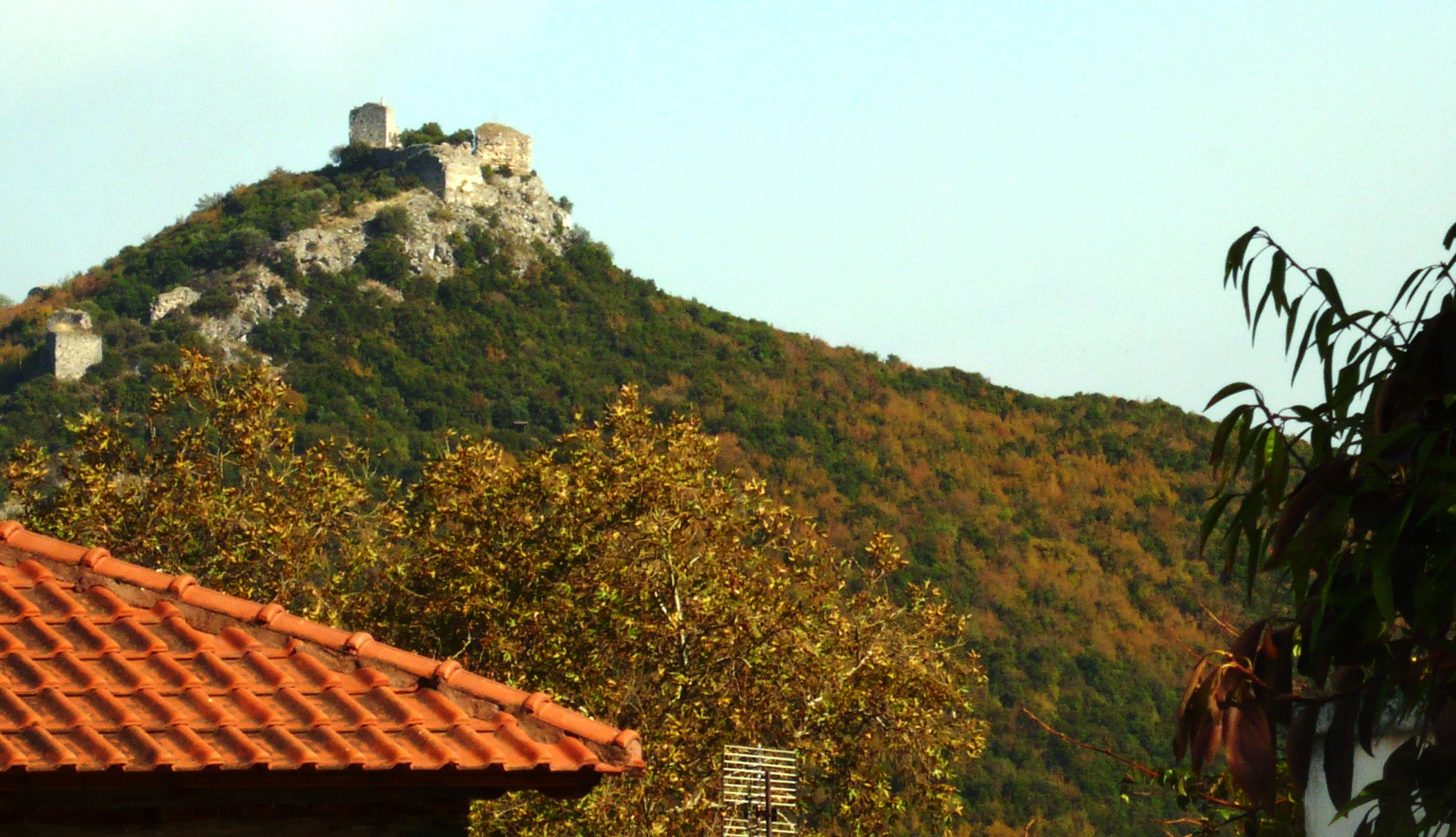 Castle of Paleohori, Pangaion